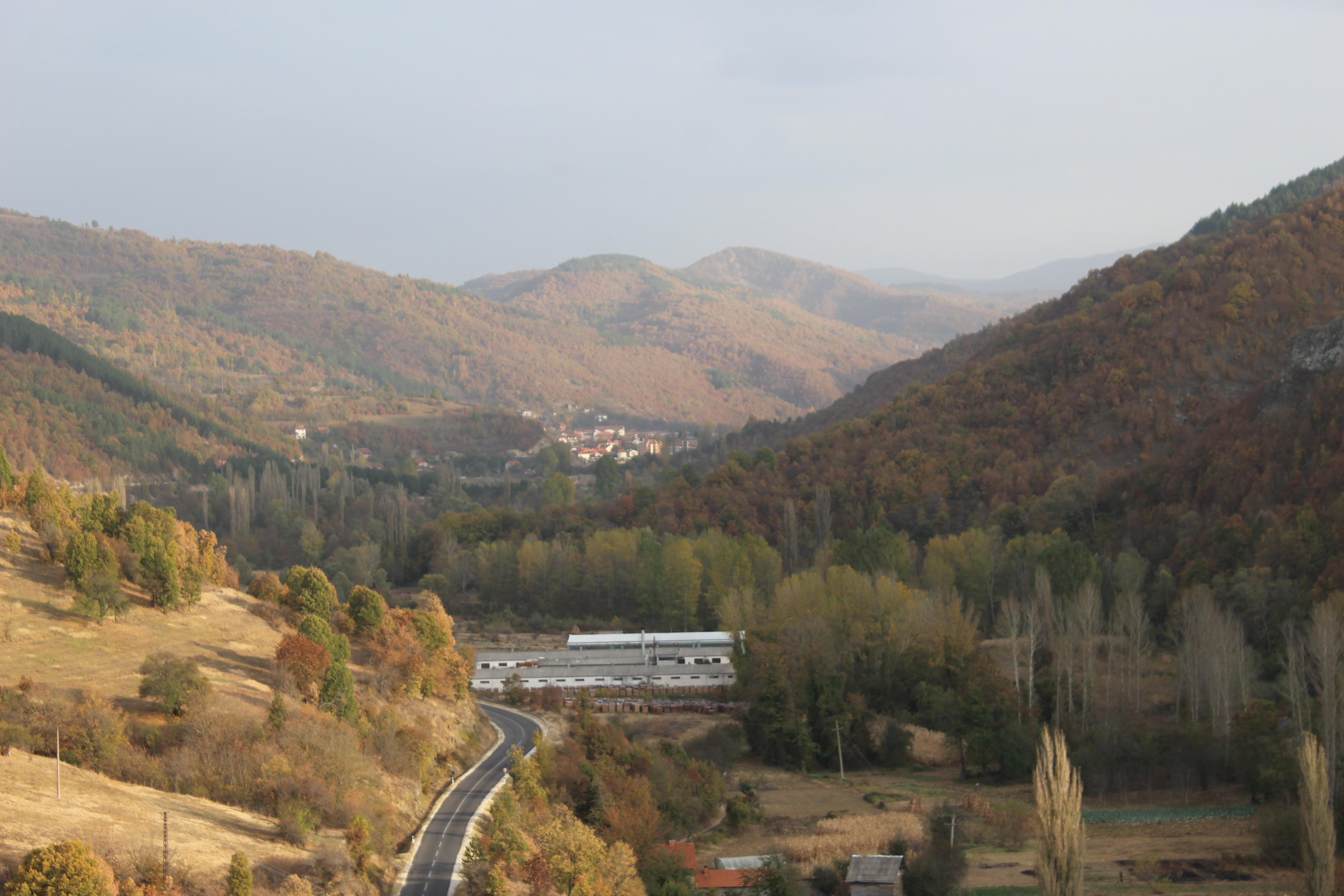 Pcinja river valley. Srpski (latinica): Dolina reke Pčinje sa pogledom prema Trgovištu. Fotografisano sa Vražjeg kamena.